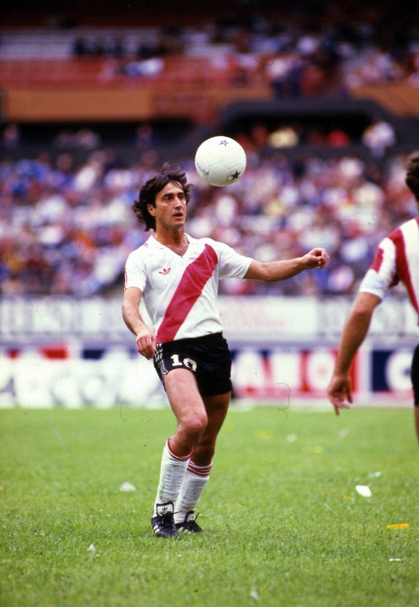 River Plate player Norberto Alonso in 1984.